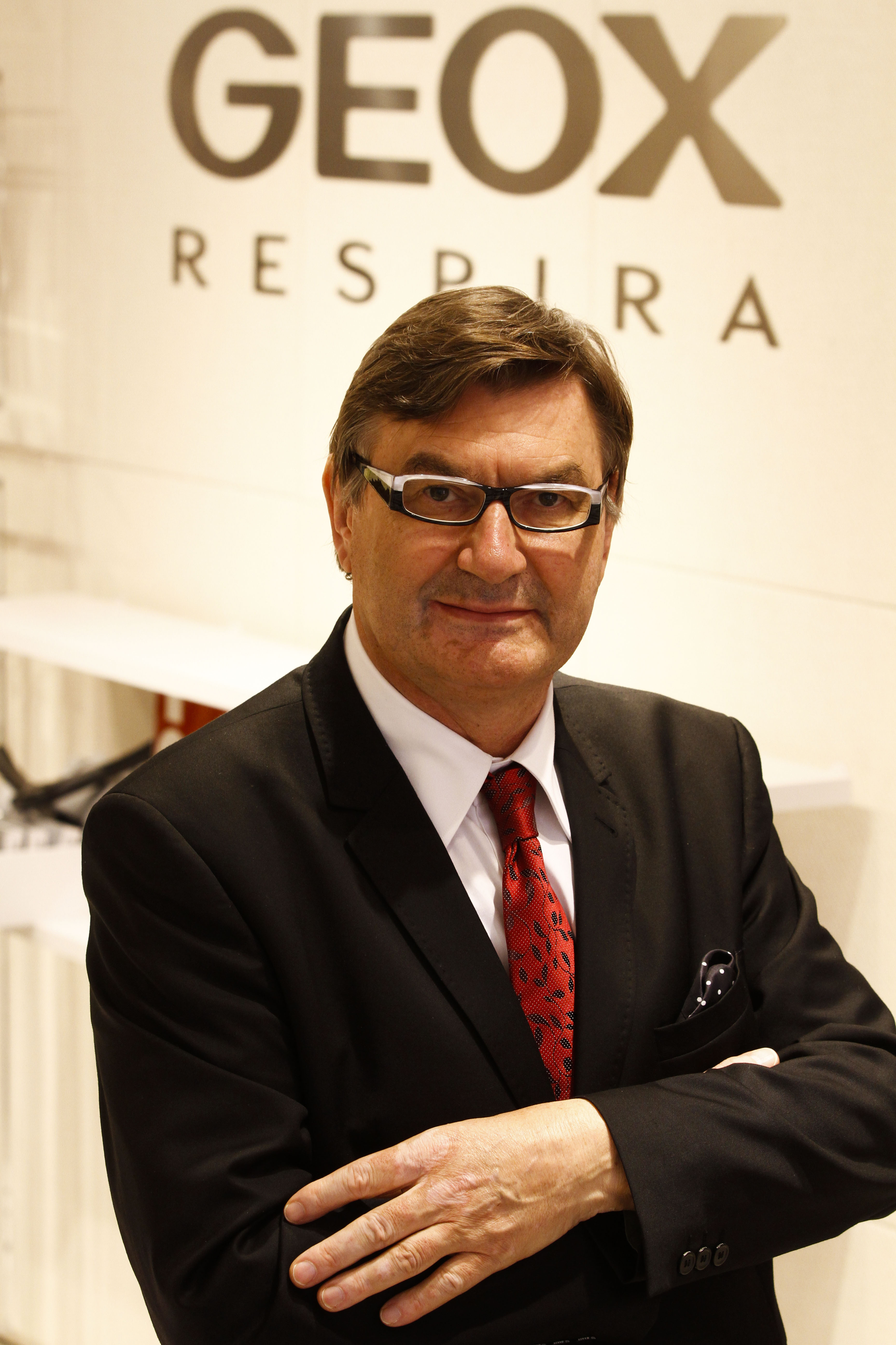 Mario Moretti Polegato, President and founder of Geox Group